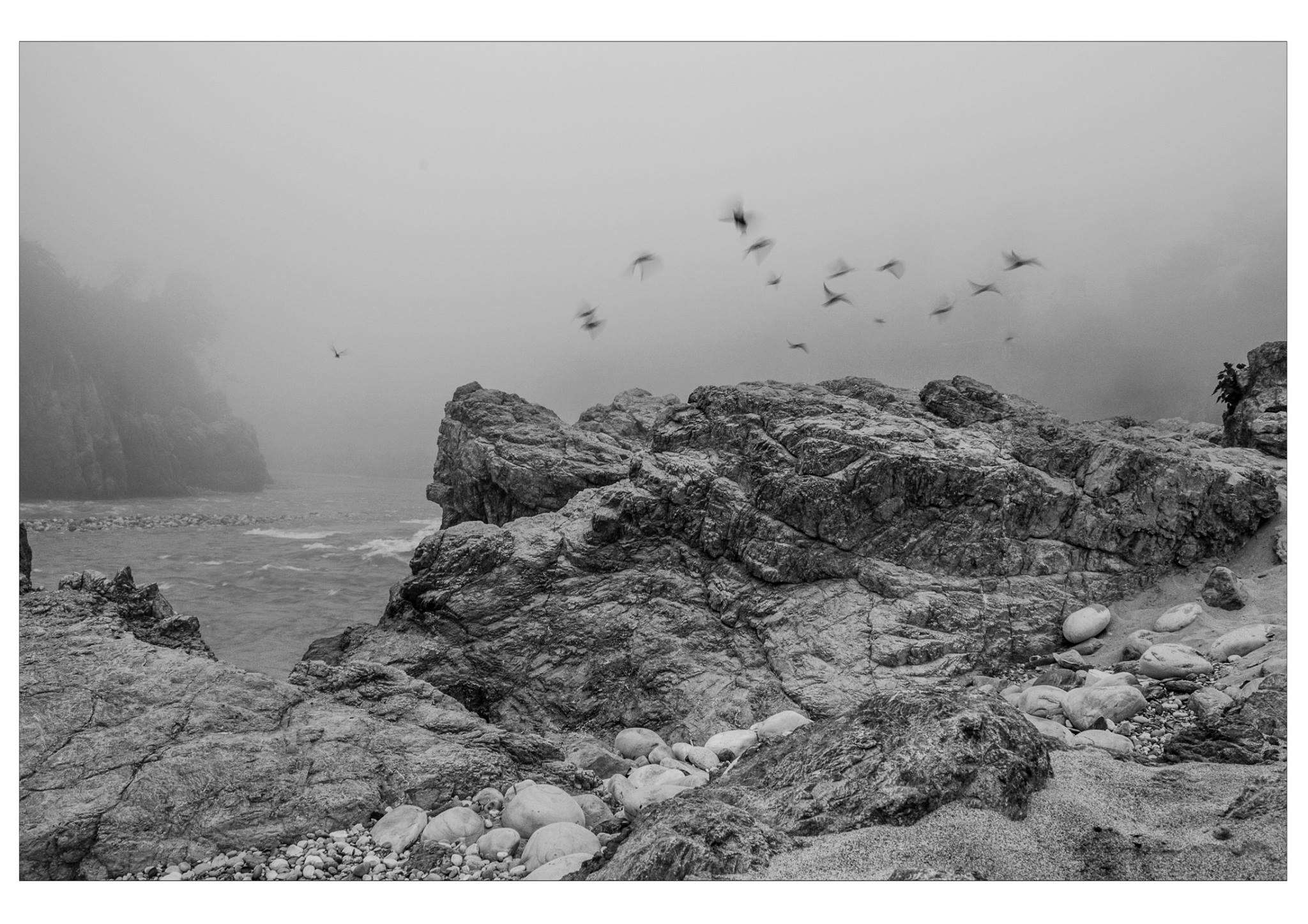 Tattapani which is a famous hill station near by Shimla situated on bank of River sutlej offers hot water spring.